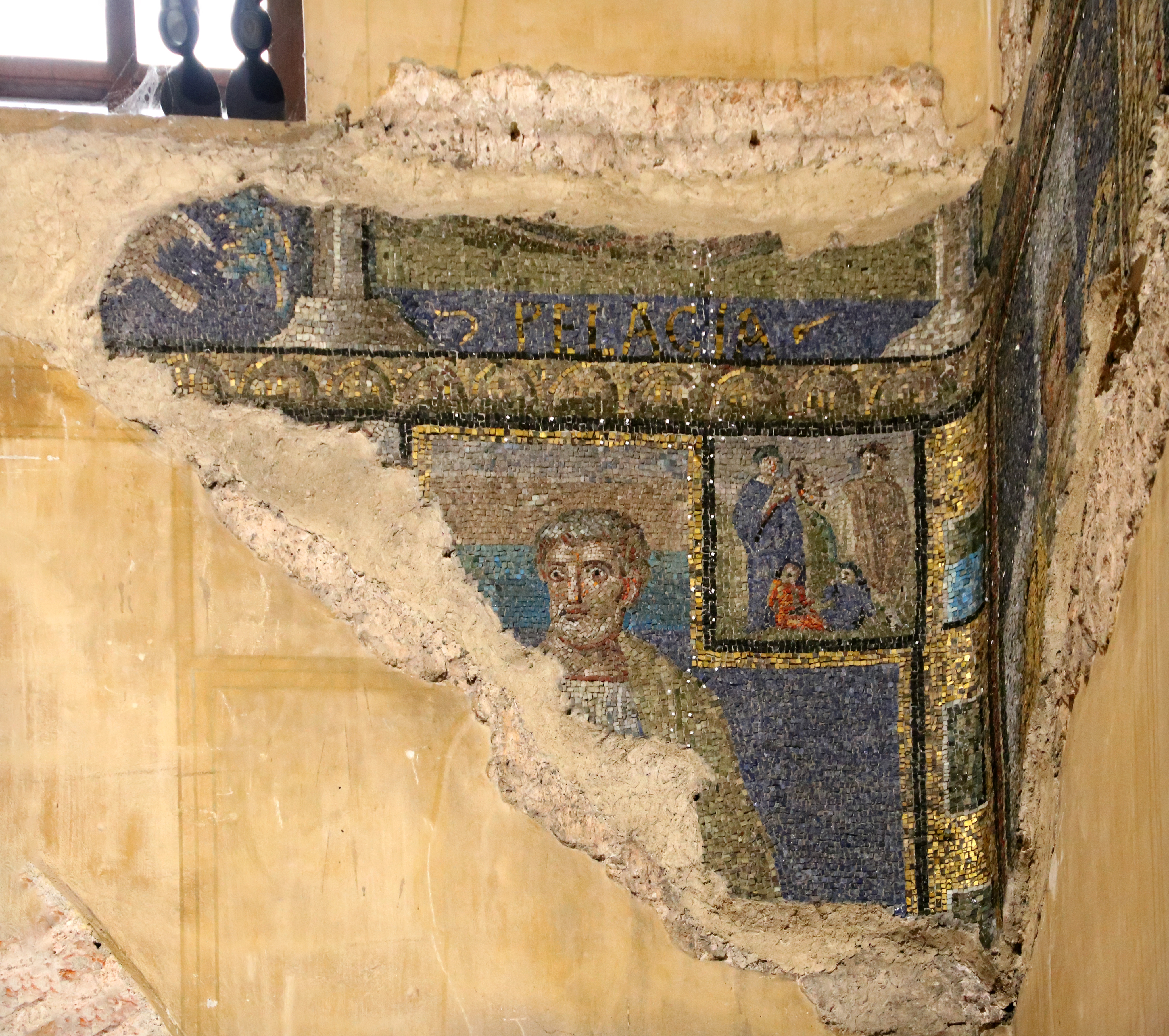 Cappella di Sant'Aquilino (Milan)